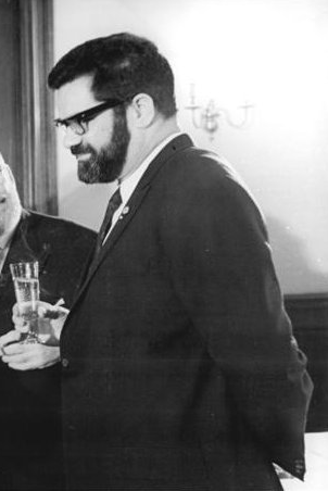 A cropped version of the source picture: Konrad Wolf in the Academy of Arts, East Berlin.